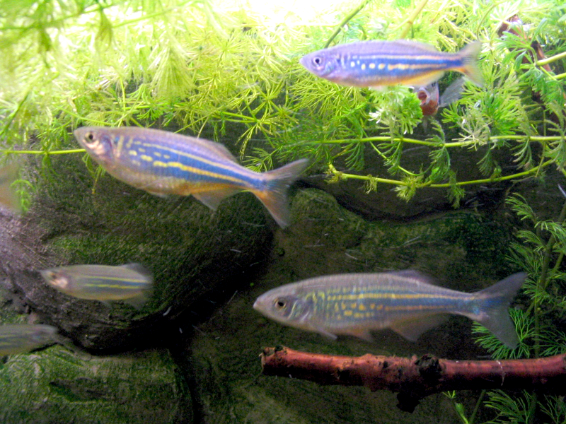 A group of Malabar danios (Devario malabaricus) from my aquarium, taken by myself.